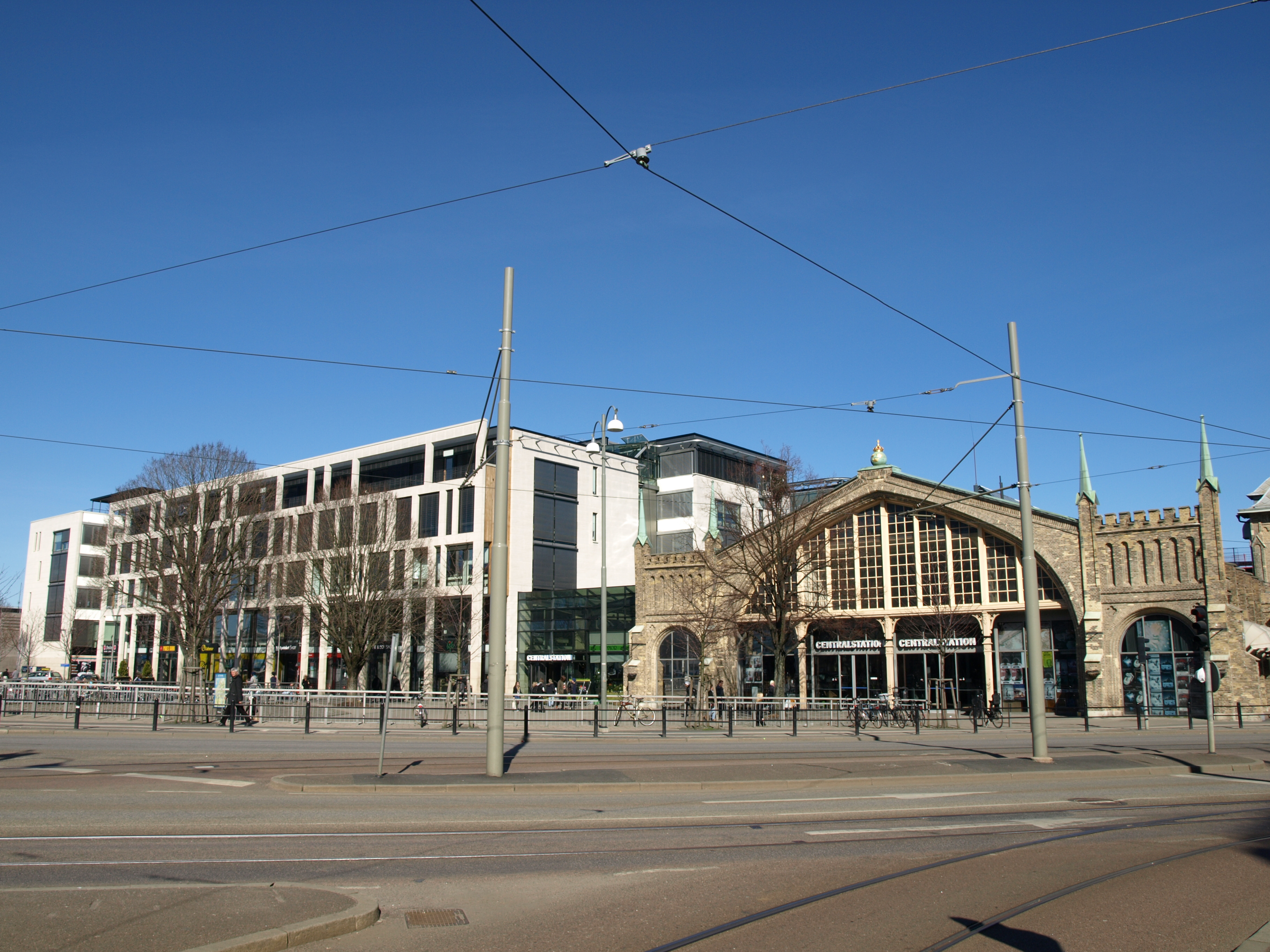 The white building to the left is the "The Central House", and the building to the right is the Central station in Gothenburg, Sweden